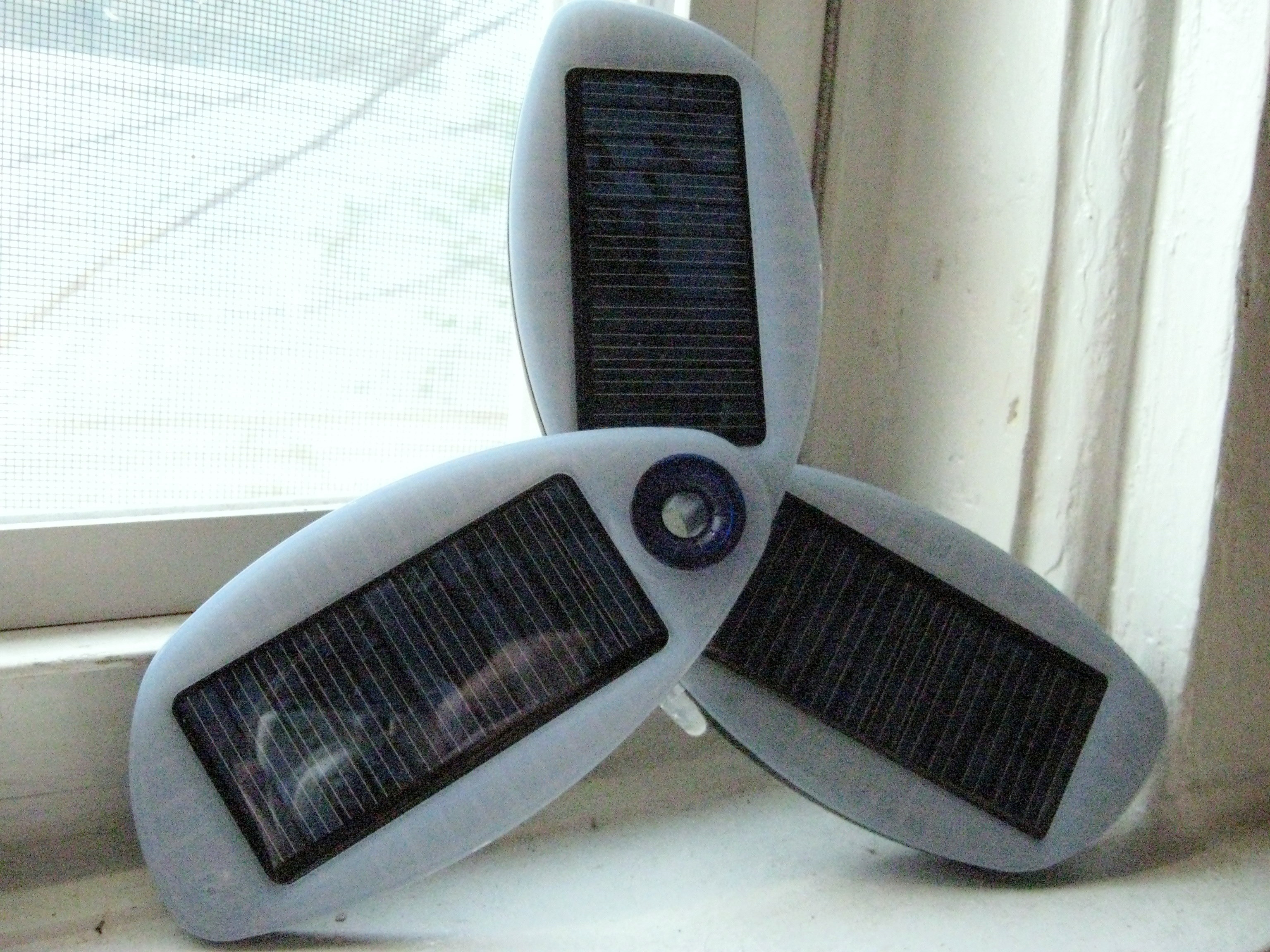 Pretty cool little gadget, but unfortunately my mobile phone is too old for the LG plug to fit. I can recharge my iPod using solar power now, at least, but I really wanted it primarily for my phone. Maybe I'll just get a newer phone that fits the Solio charger tip, and recycle or donate the old one (which still works fine). Hmm.